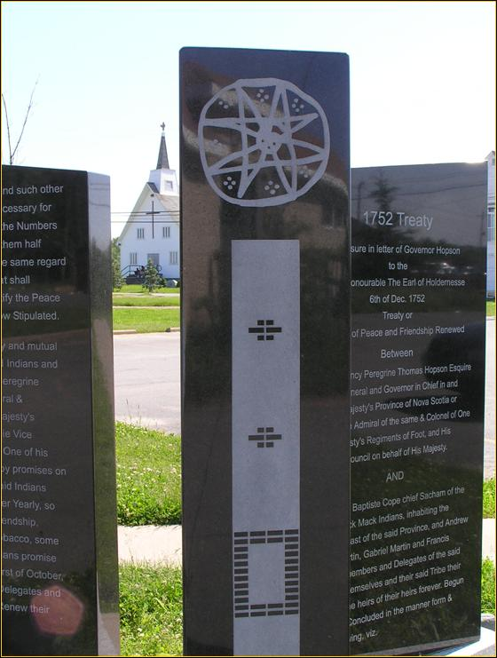 Jean-Baptiste Cope Monument, Shubenacadie, Nova Scotia, Canada